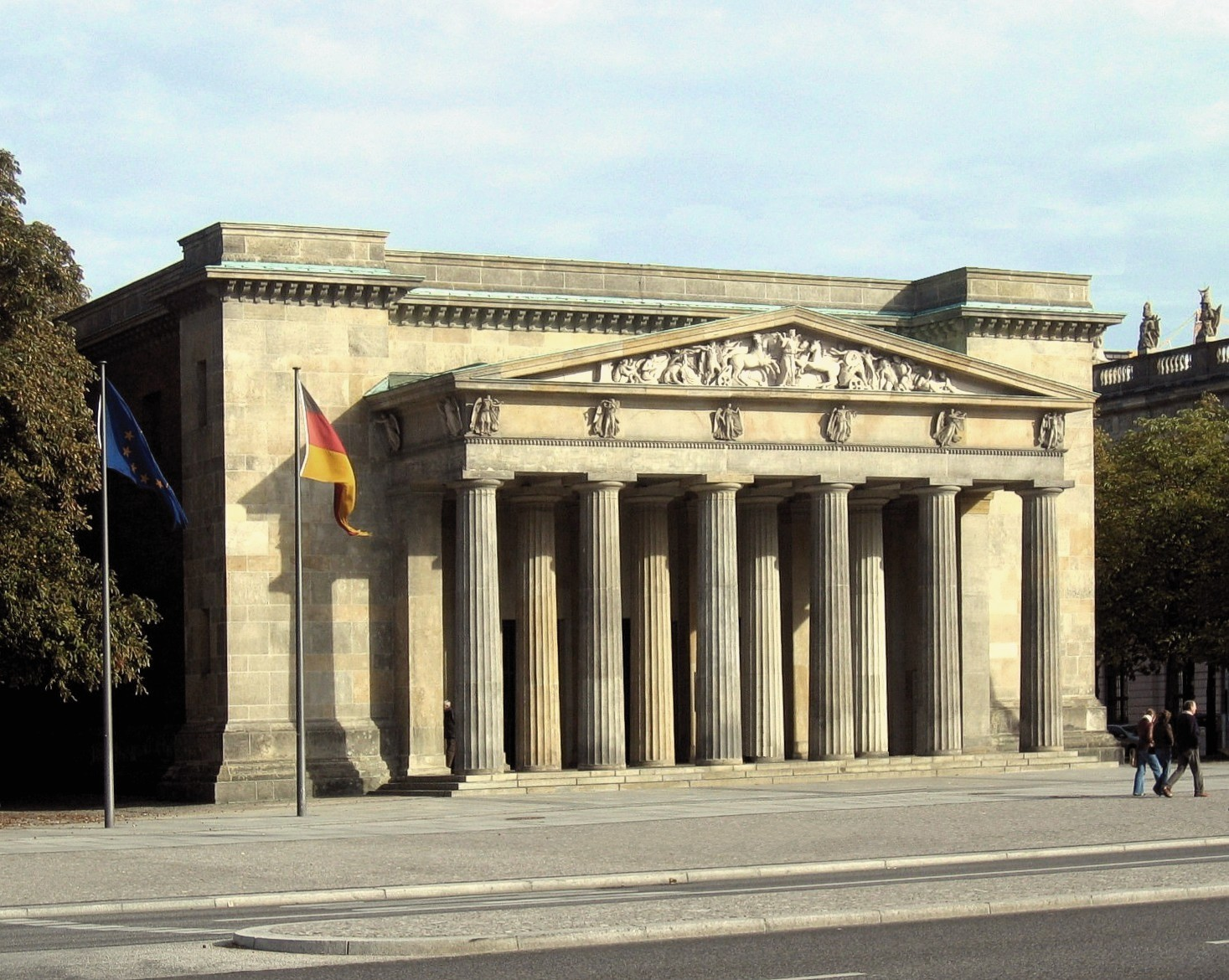 Neue Wache (New Watchhouse), Berlin (Germany)